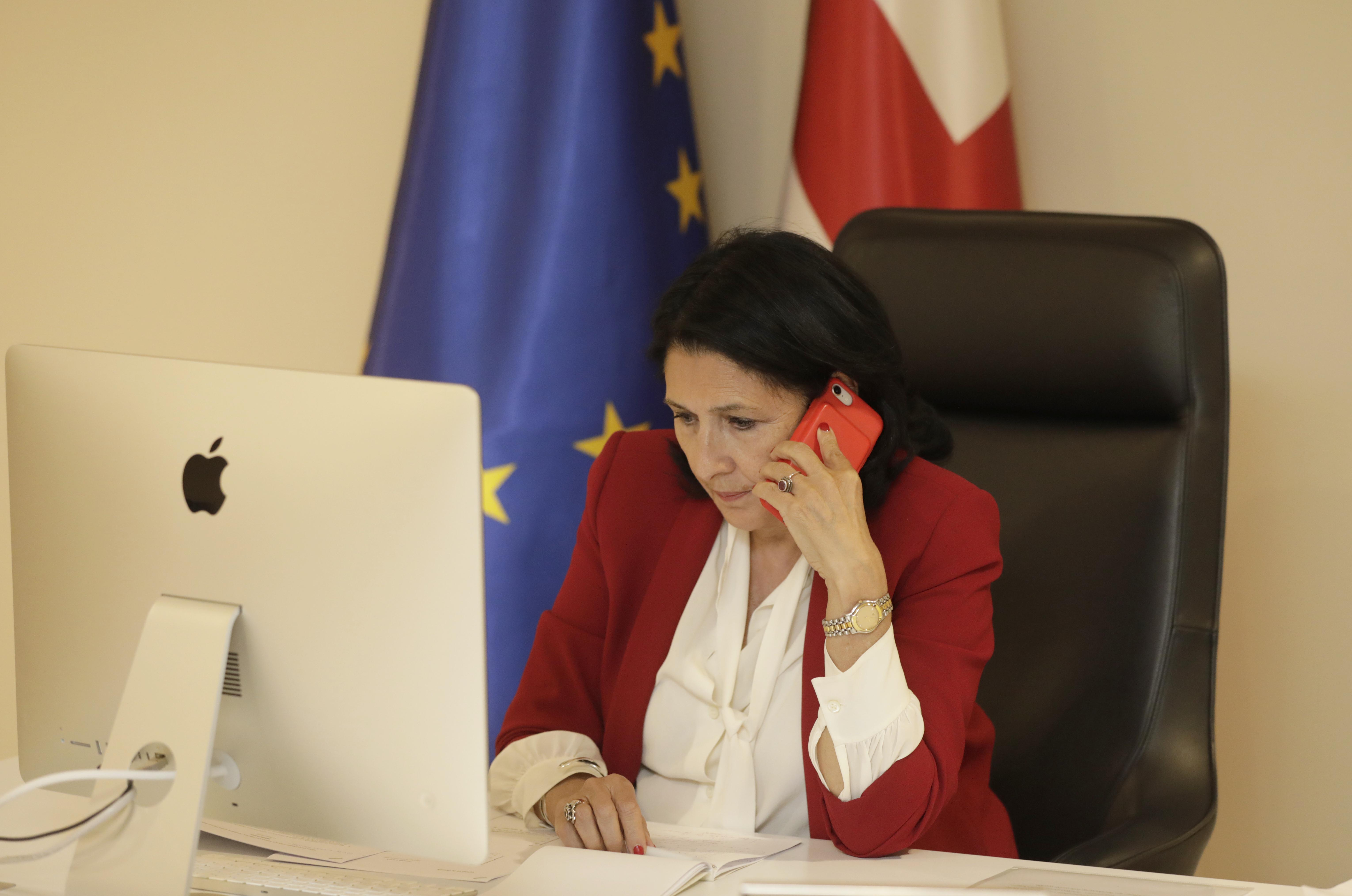 Georgian President Salome Zourabichvili discussing the COVID-19 pandemic with Emmanuel Macron, President of the French Republic.